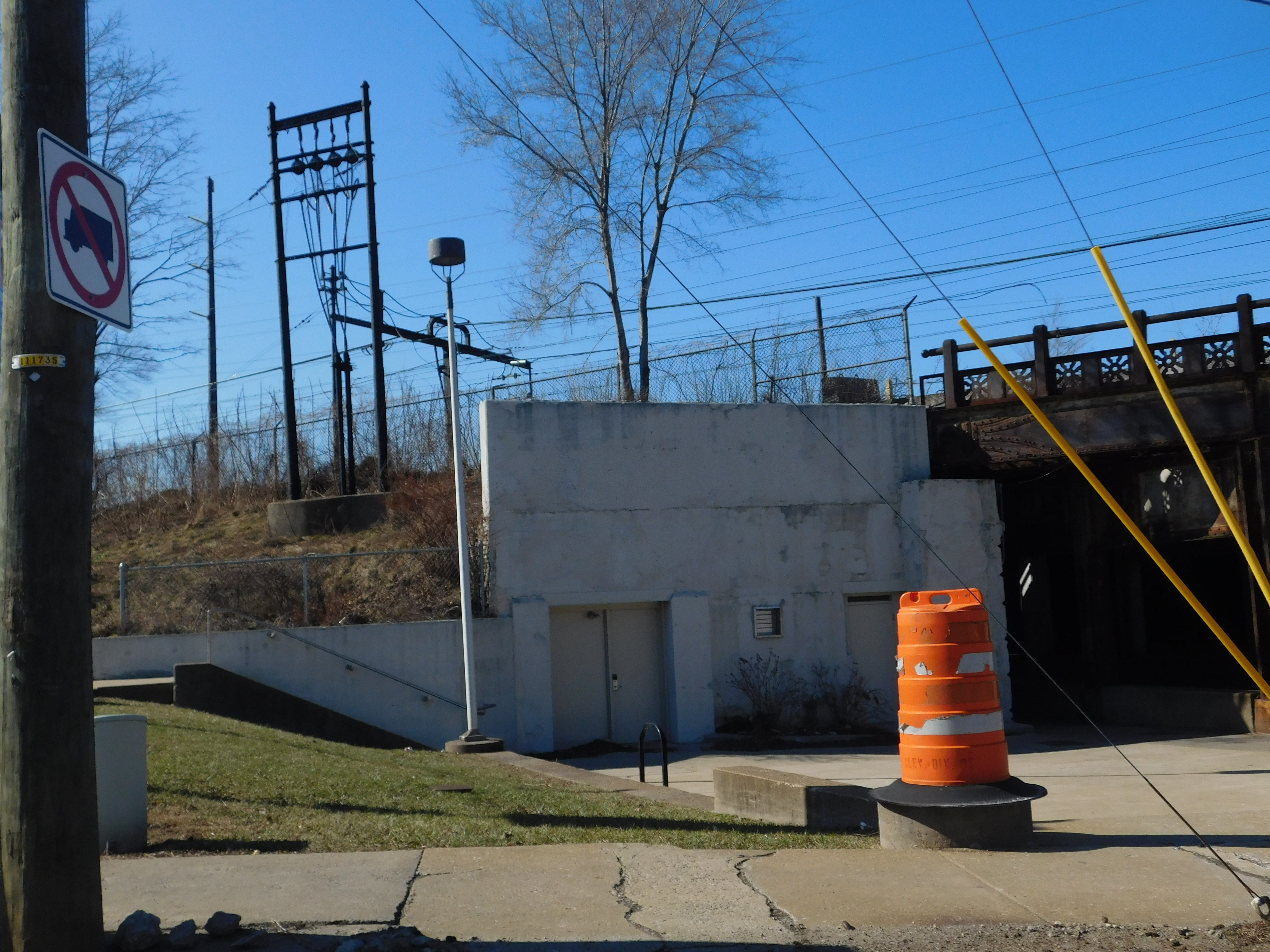 The Euclid–East 120th station's old headhouse in Cleveland, Ohio.